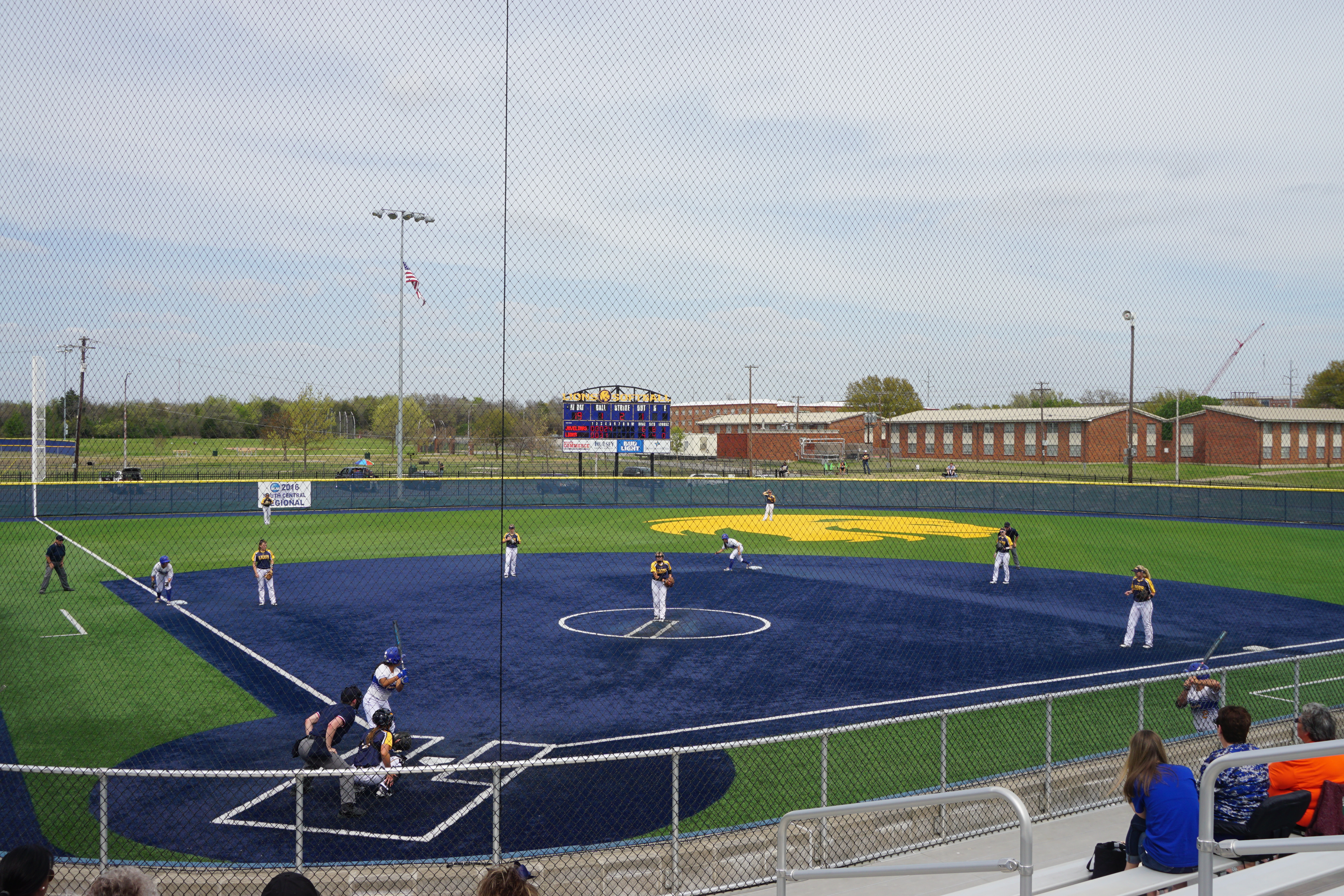 In-game action during the first game of the Texas A&M–Kingsville Javelinas vs. Texas A&M–Commerce Lions softball doubleheader at the John Cain Family Softball Field in Commerce, Texas (United States). A&M–Commerce won the first game 7–6 and the second game 4–3.